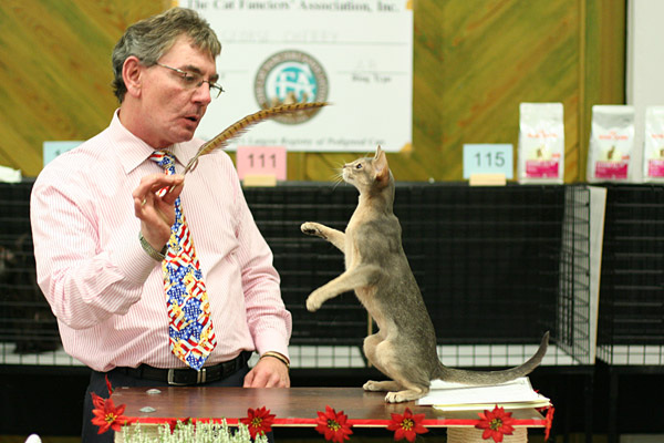 Blue abyssinian female at the CFA cat show in Helsinki. Greenville Dolce VIta [ABY a]